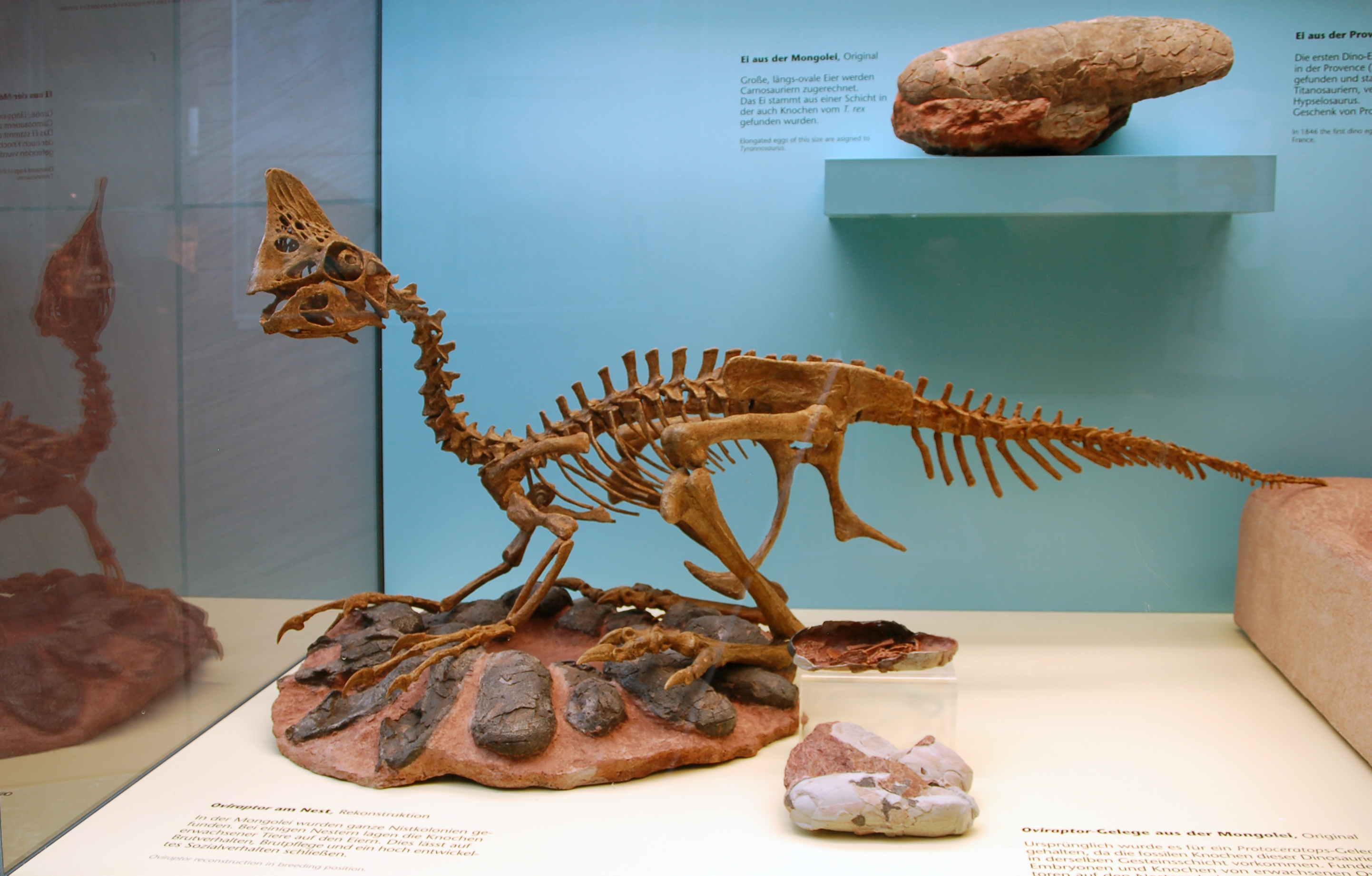 Unnamed oviraptorid skeleton and eggs in the Senckenberg Museum in Frankfurt am Main